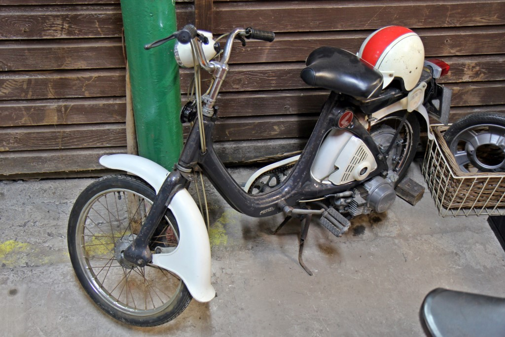 1967 Honda P50 moped, Wirral Transport Museum, Birkenhead